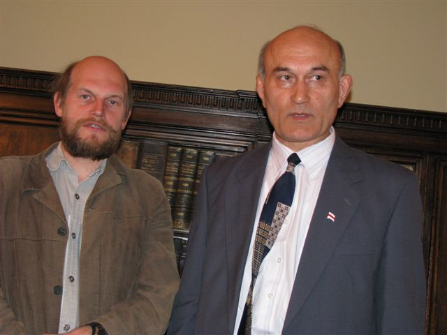 Лявон Баршчэўскі (Lawon Barszczewski, b. 1958), Belarusian writer and public activist and Зянон Пазняк (Zianon Pazniak, b. 1944), Belarusian politician, poet and public activist